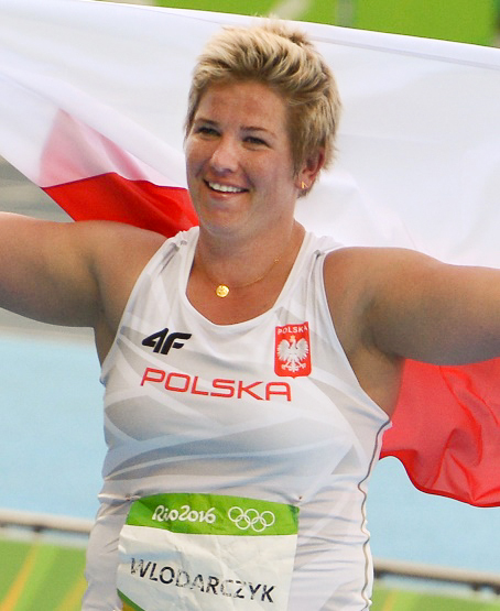 Anita Wlodarczyk, lap victory, Rio 2016 Olympics.